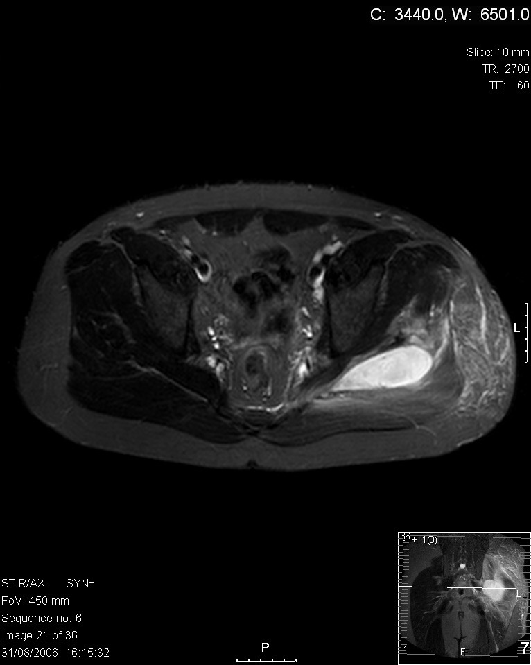 Transverse T2 magnetic resonance imaging section through the hip region showing abscess collection in relation to the sciatic nerve in a patient with pyomyositis who presented with sciatica.